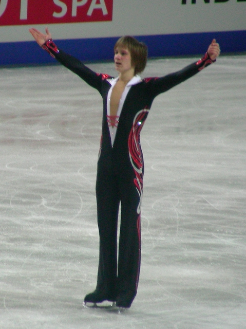 Sergei Dobrin on the 2007 European Figure Skating Championships in Warsaw - free skate